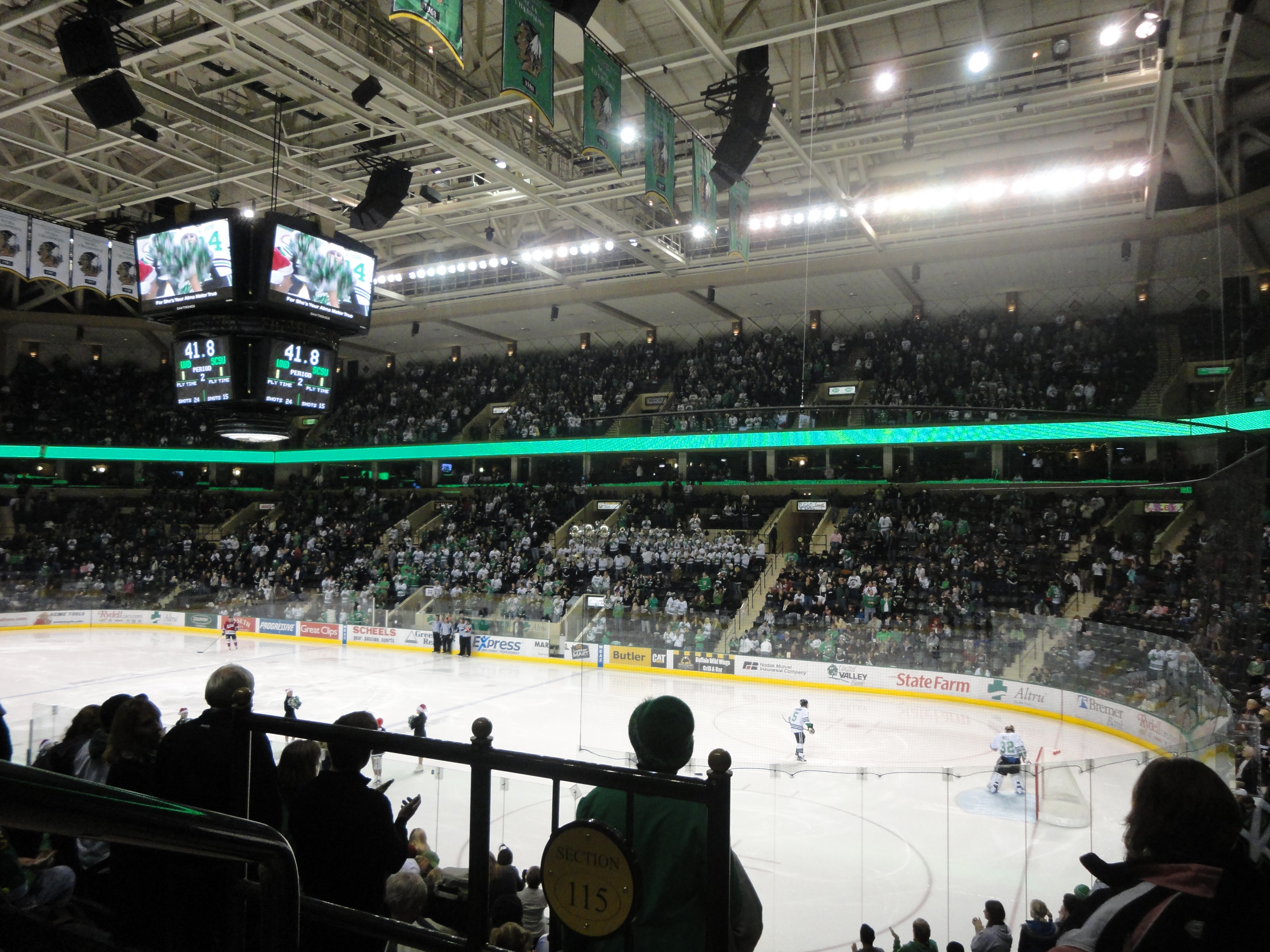 The Ralph Engelstad Arena during a 2010 men's ice hockey game between the University of North Dakota and St. Cloud State University.